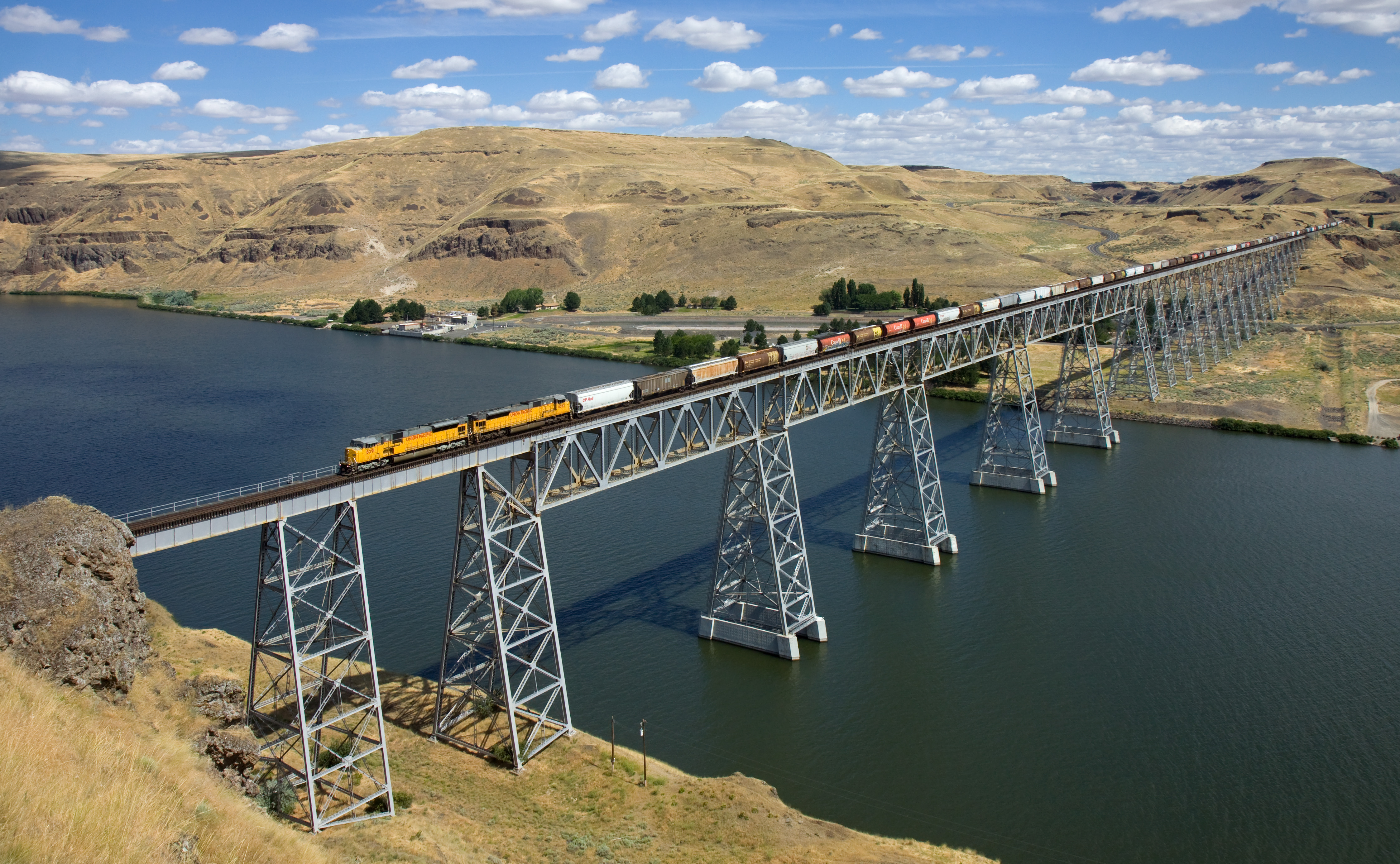 Two Union Pacific EMD SD9043AC cross the Joso Bridge with a grain train, near Starbuck, WA.